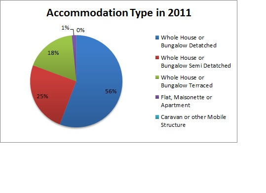 The type of Accommodation in Stainton in 2011 using Census data